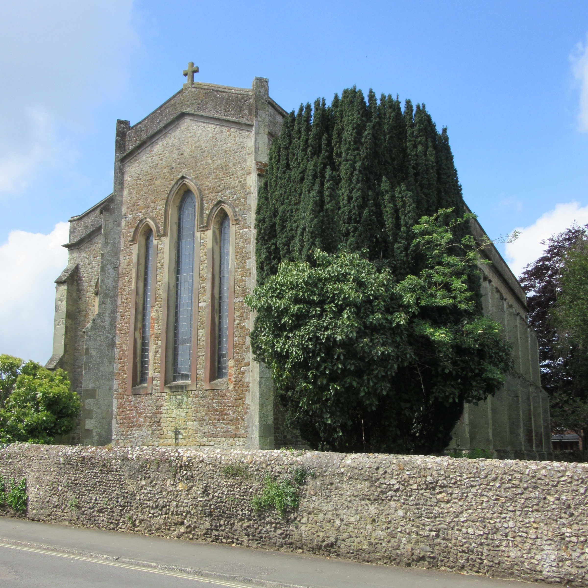 St John the Baptist's Church, Drake Road, Newport, Isle of Wight, England. An Anglican church in the island's main town.